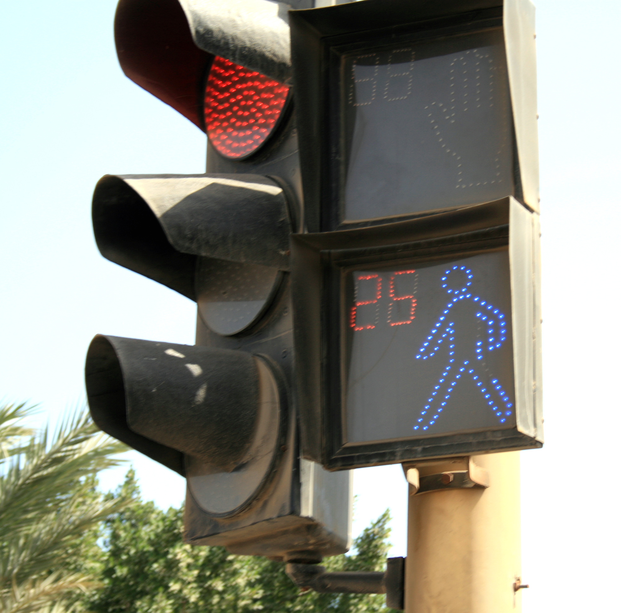 Green light for pedestrians on trafic light in Hurghada, Egypt